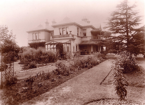 Description: Building of Trinity Grammar School (New South Wales) in the 1950s. Image title:Trinity Grammar School - Llandillo